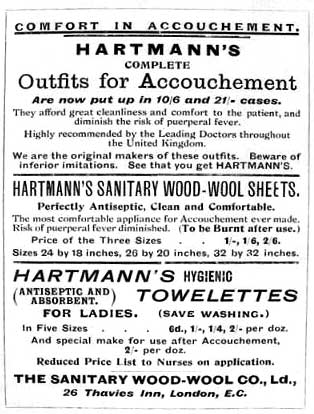 Hartmann's ad for "Towelettes" for women